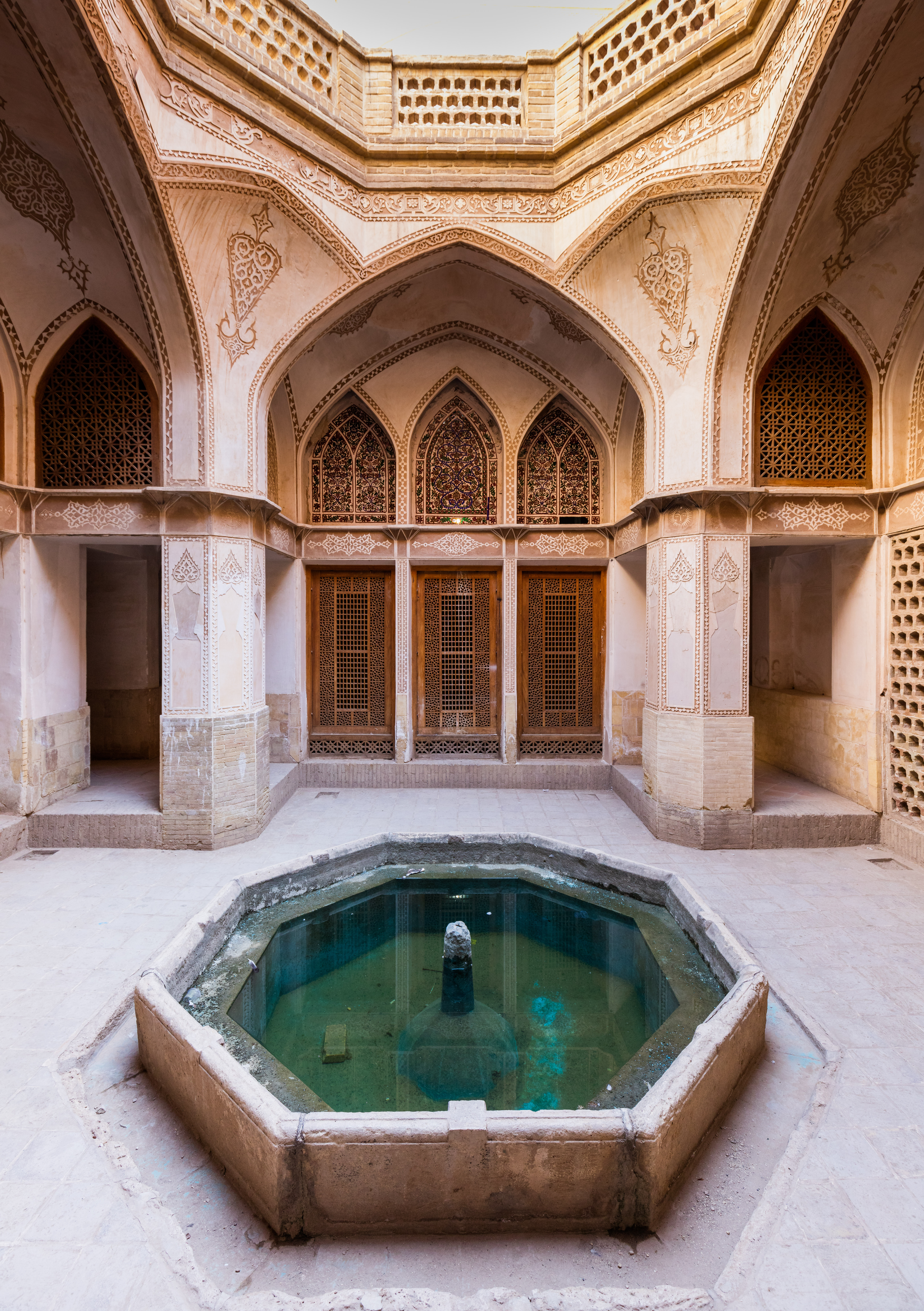 View of one of the six courtyards of the Abbāsi House, a large traditional historical house located in Kashan, Iran. Built during the late 18th century, it is said to have been the property of a famous cleric.